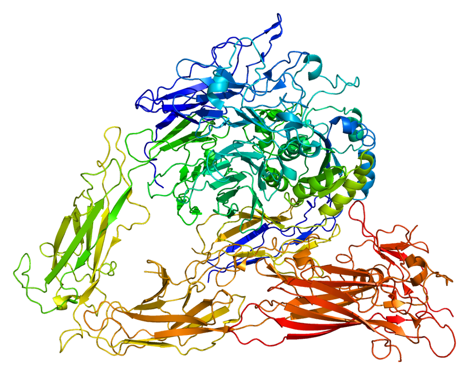 Structure of the ITGB3 protein. Based on PyMOL rendering of PDB 1jv2.